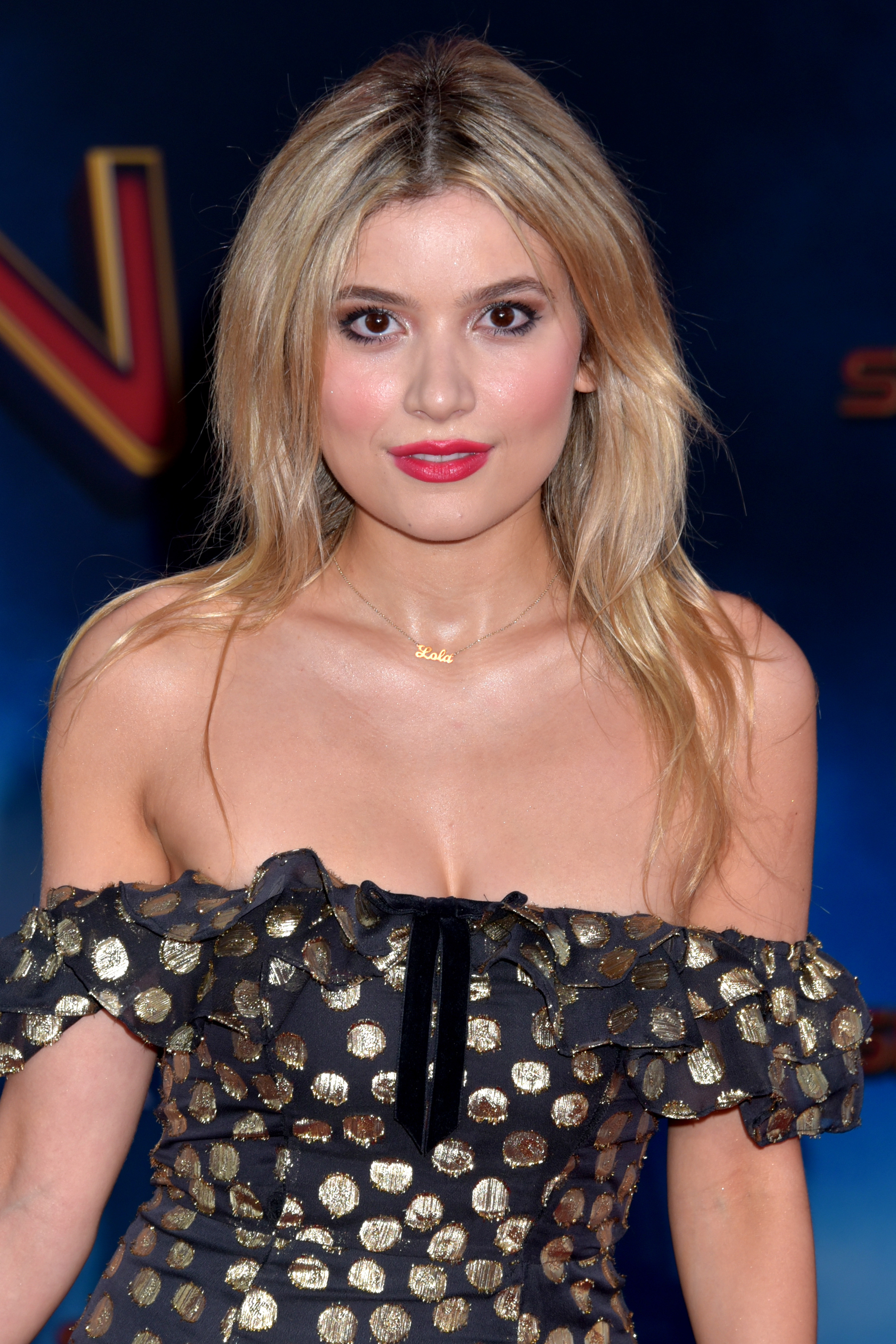 Lola Tash arrives for the premiere of "Spider-Man: Far From Home" in Hollywood California on June 26, 2019 - Photo by Glenn Francis of